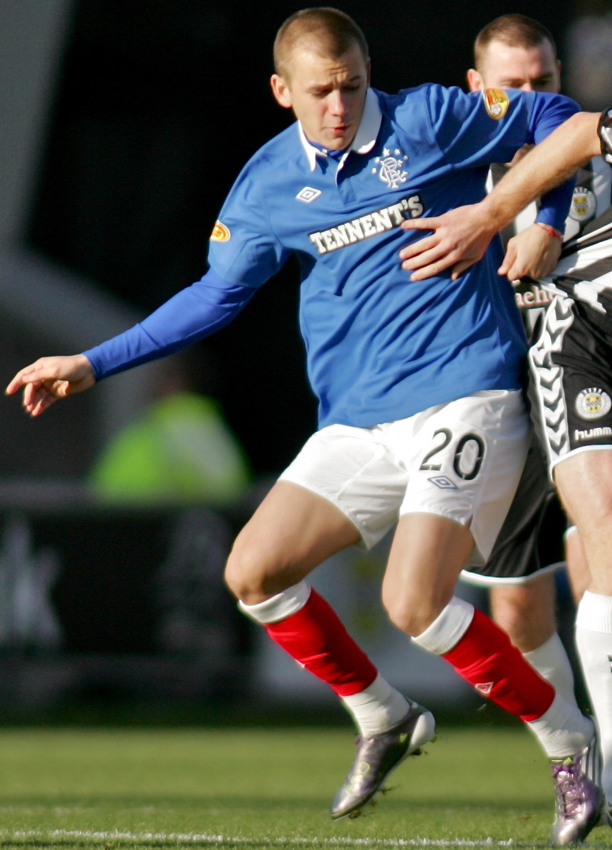 Vladimír Weiss playing for Rangers against St Mirren